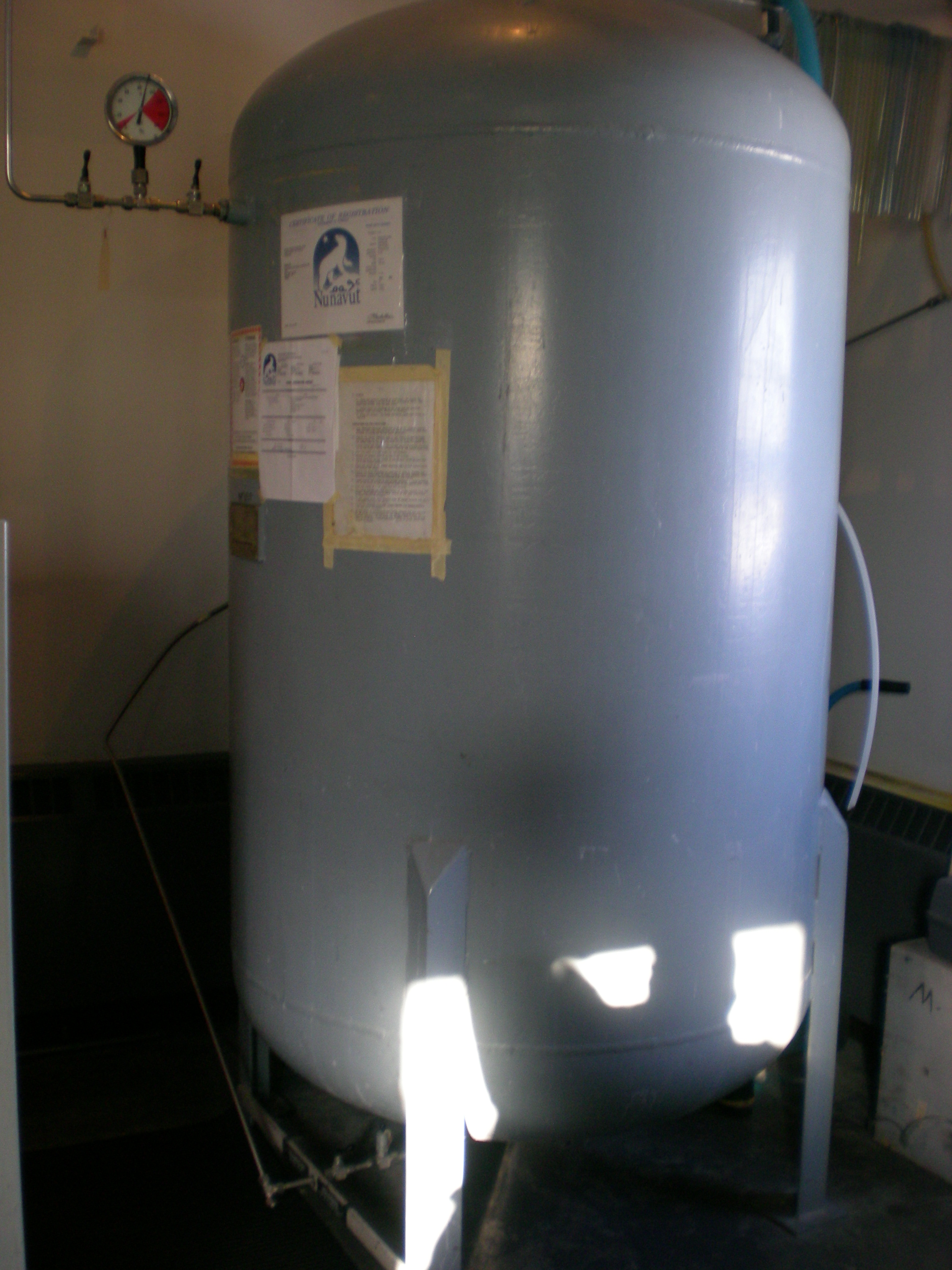 High pressure tank used to store hydrogen until needed.